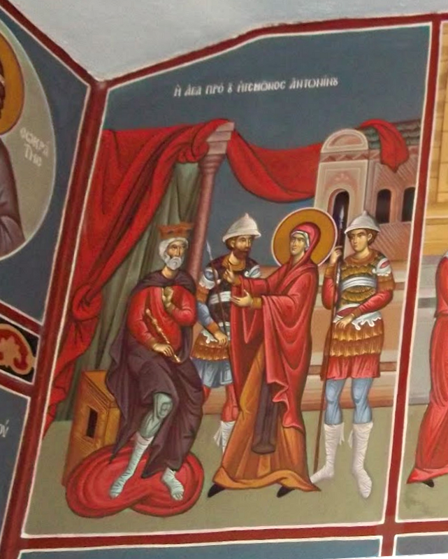 Paraskevi of Rome heals the Roman emperor Antoninus Pius